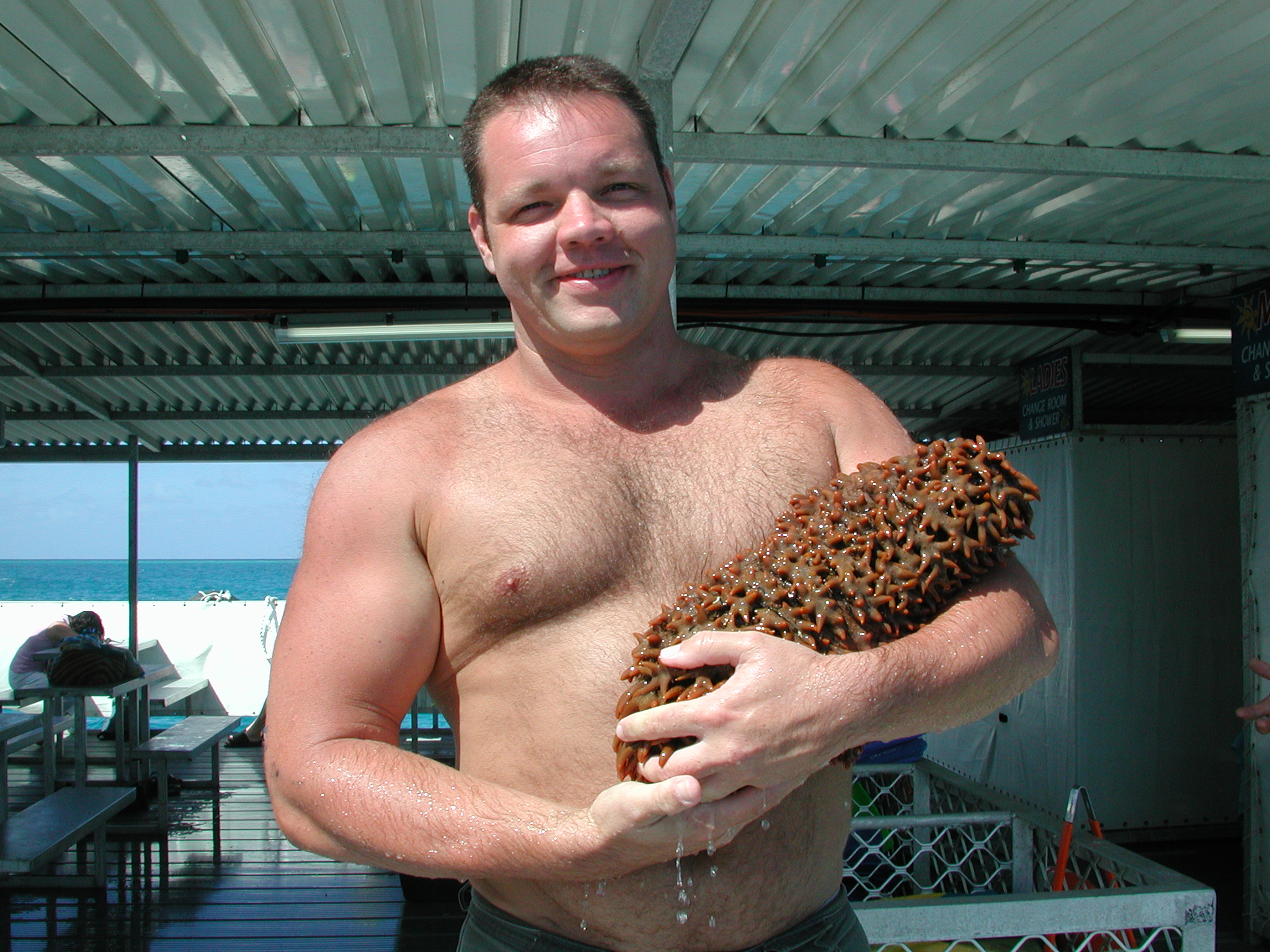 Man holding a sea cucumber